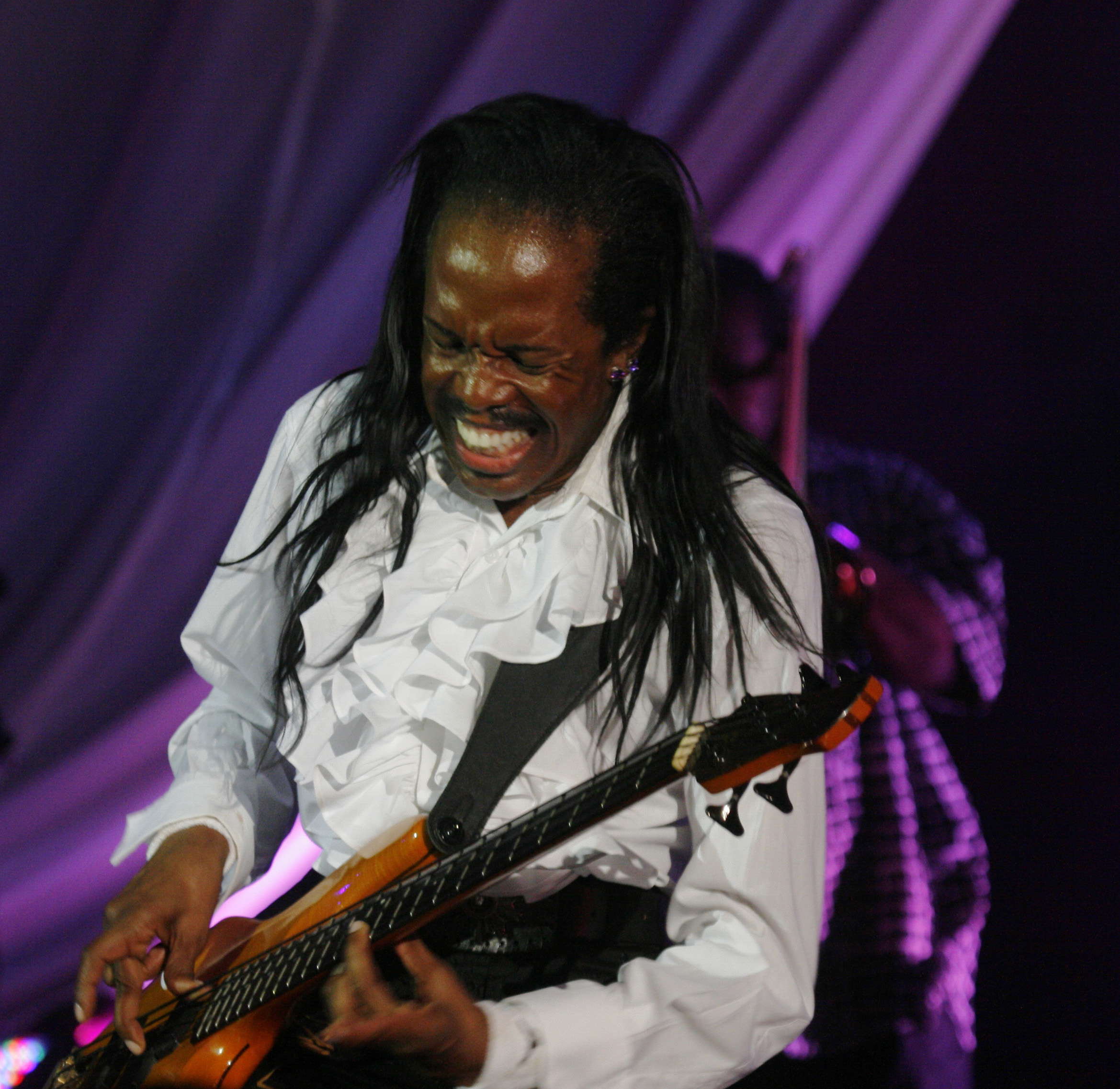 Earth, Wind and Fire performing at the 2009 Leukemia Ball